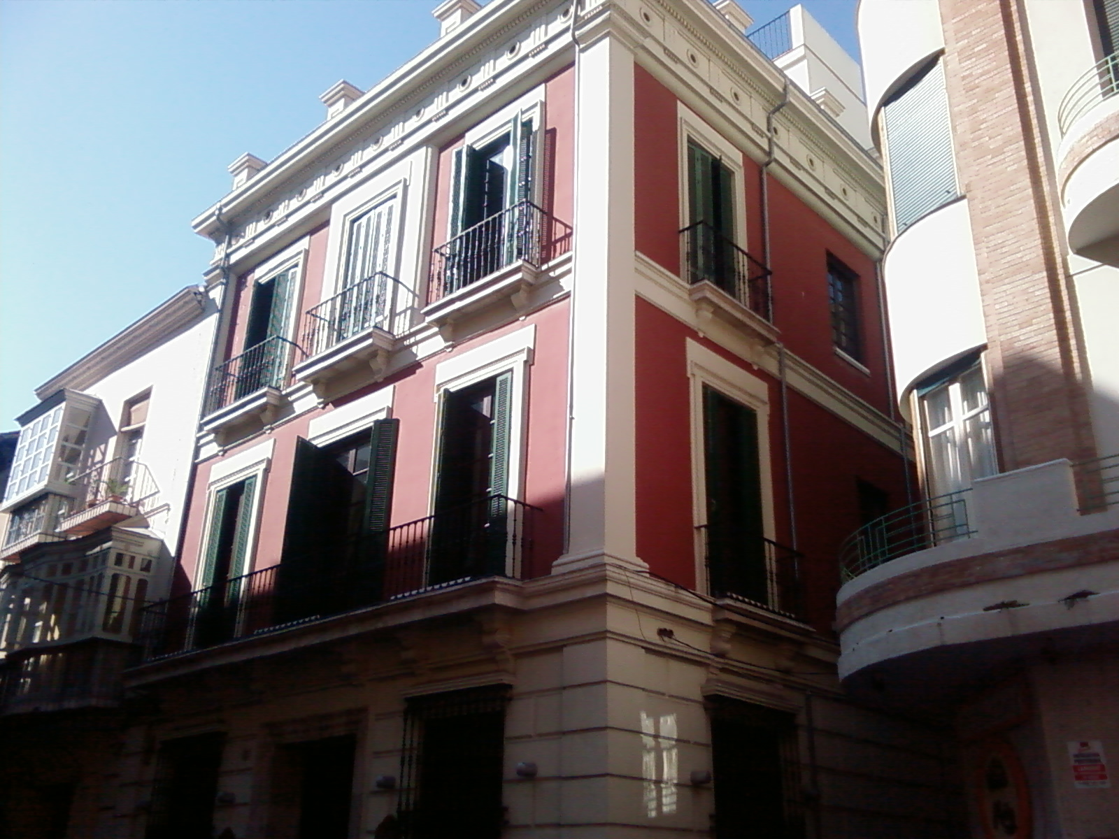 Crópani Palace, Málaga, Spain